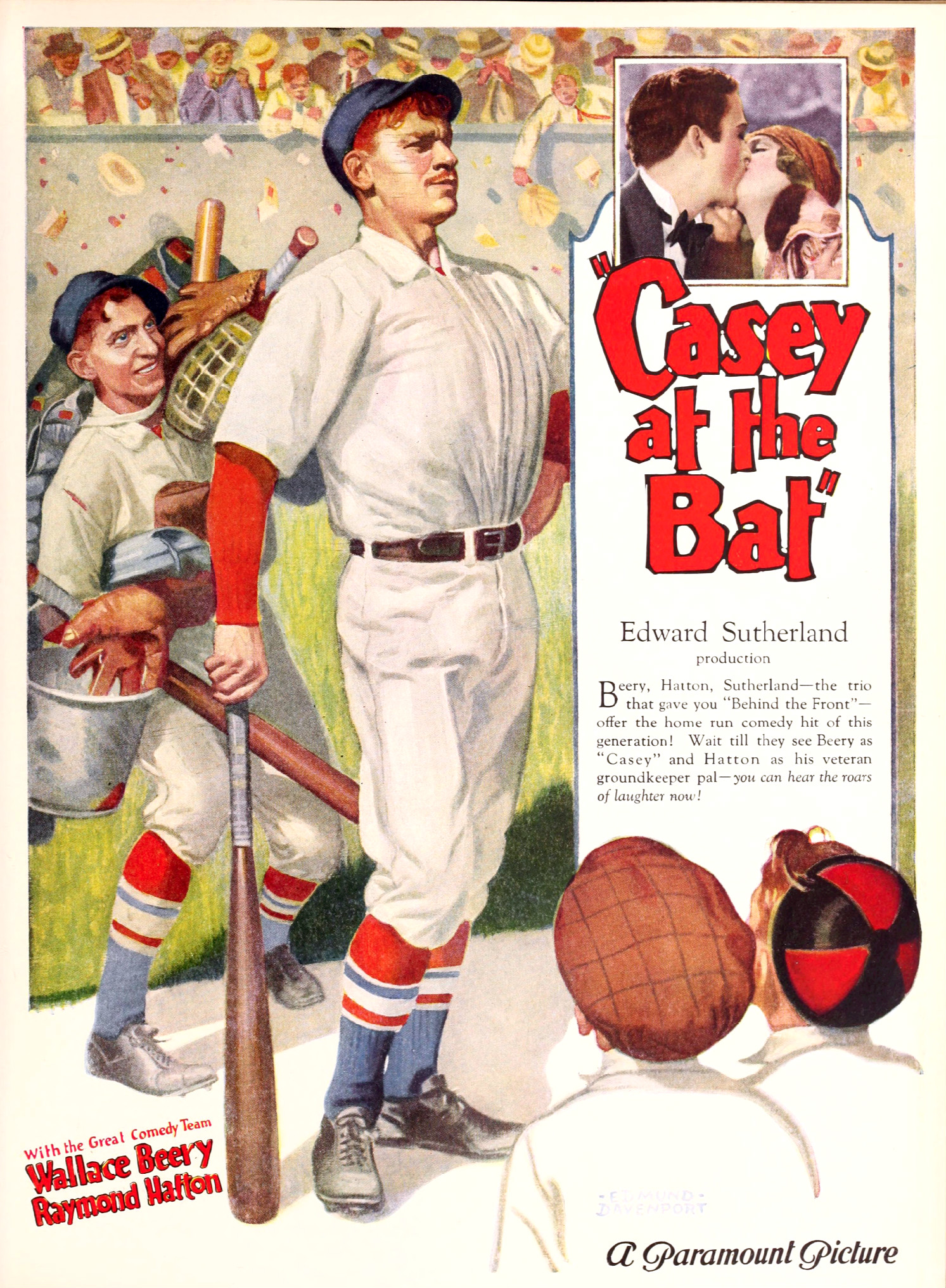 Ad for the 1927 Paramount film Casey at the Bat. Paramount did not mark this ad or any others in this journal with copyright marks. Motion Picture news copyrights did not apply to ads placed in the magazine--to editorial content only. US Copyright Office page 3-magazines are collective works (PDF) "A notice for the collective work will not serve as the notice for advertisements inserted on behalf of persons other than the copyright owner of the collective work. These advertisements should each bear a separate notice in the name of the copyright owner of the advertisement."